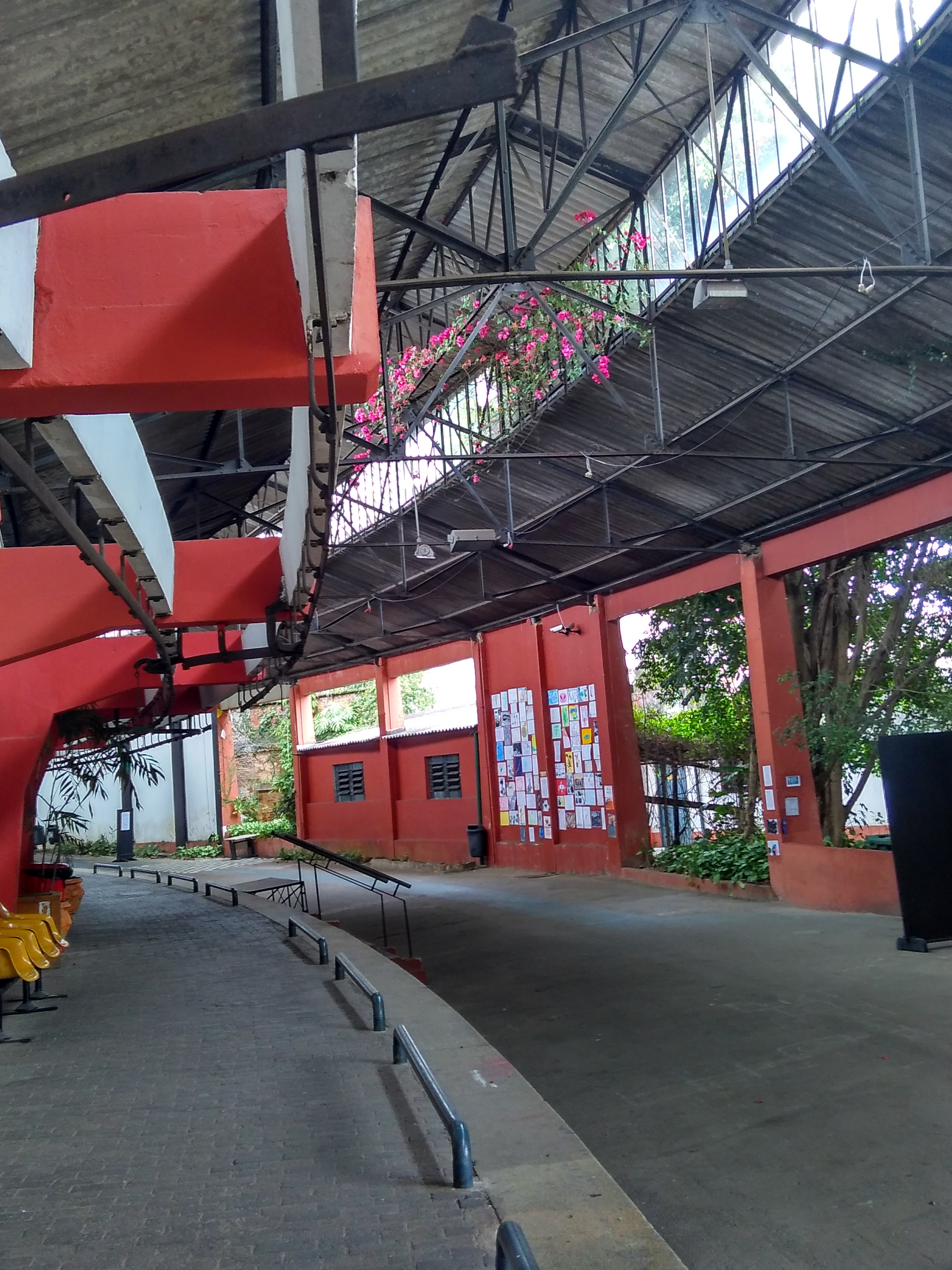 Tendal da Lapa 47